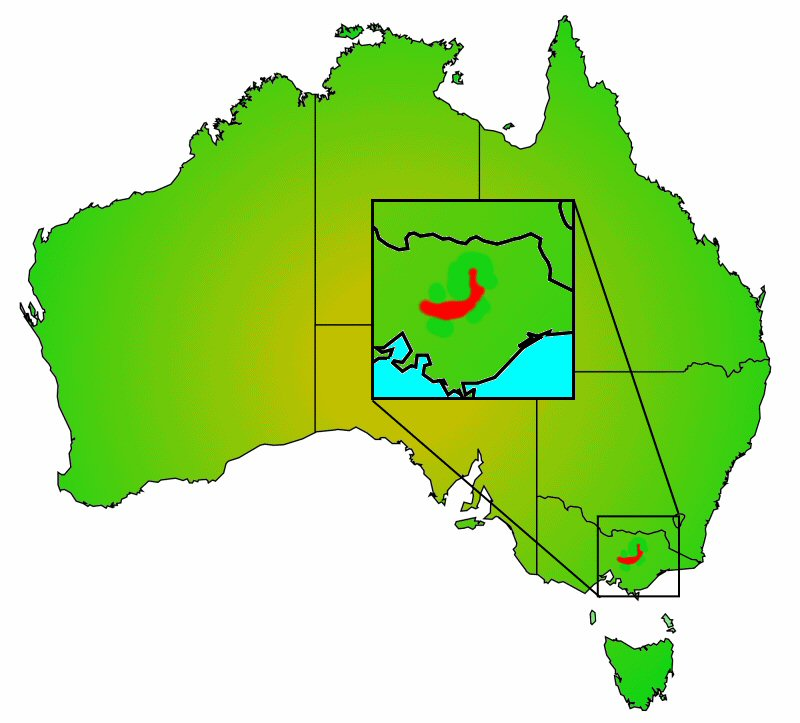 This is distribution map for the Australian freshwater fish the barred Galaxias or Galaxias fuscus